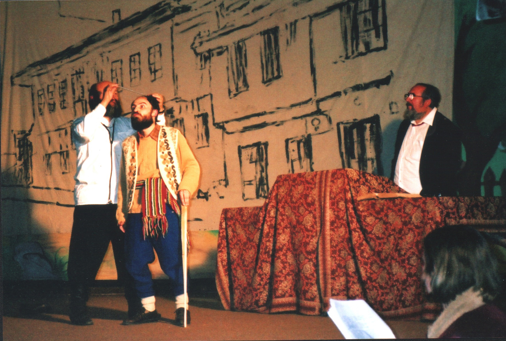 Mladen Dražetin acting in a theatre play of the Correspondence Theatre and Drama Art Scene.